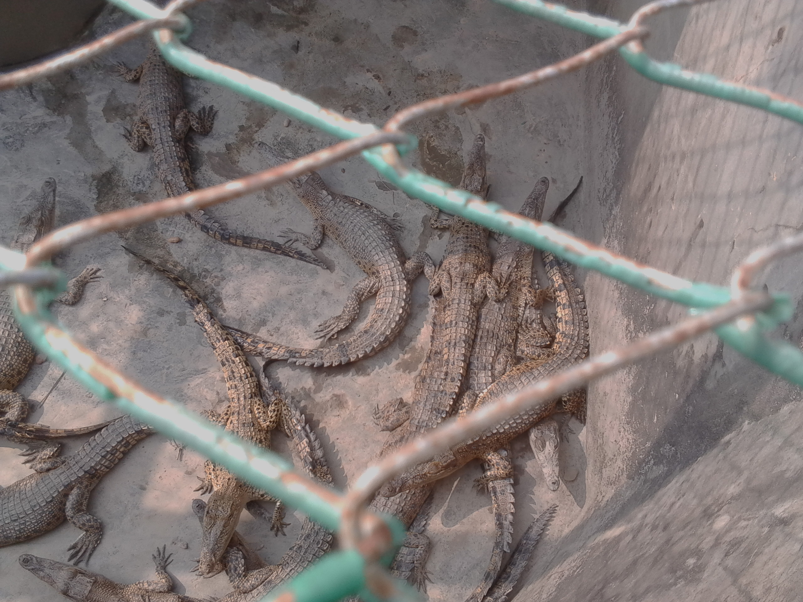 সুন্দরবনের কুমির খামারে চাষকৃত কুমির ছানা